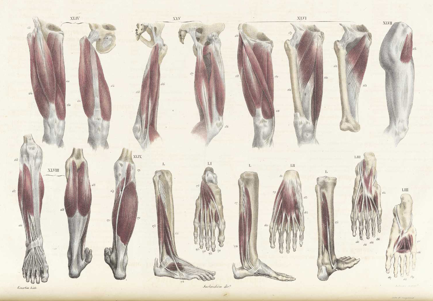 Some muscles of human body.